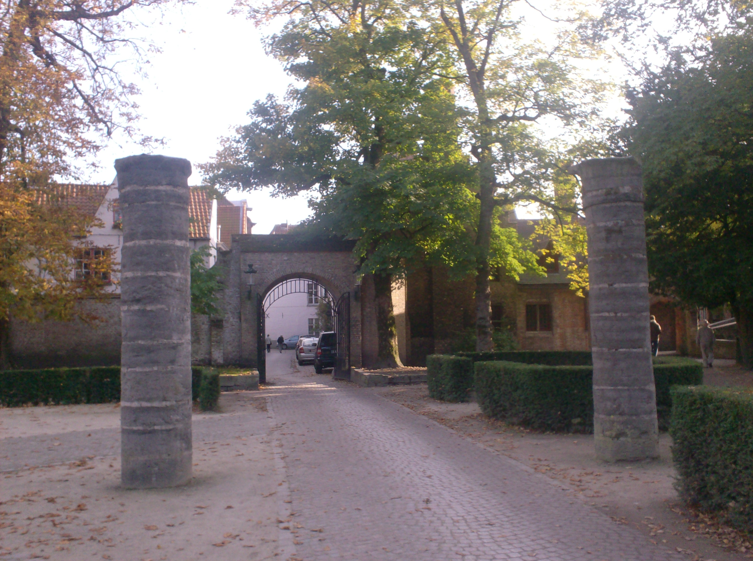 Arentshof, garden of the Arents House (Brangwyn Museum), Bruges (Belgium)